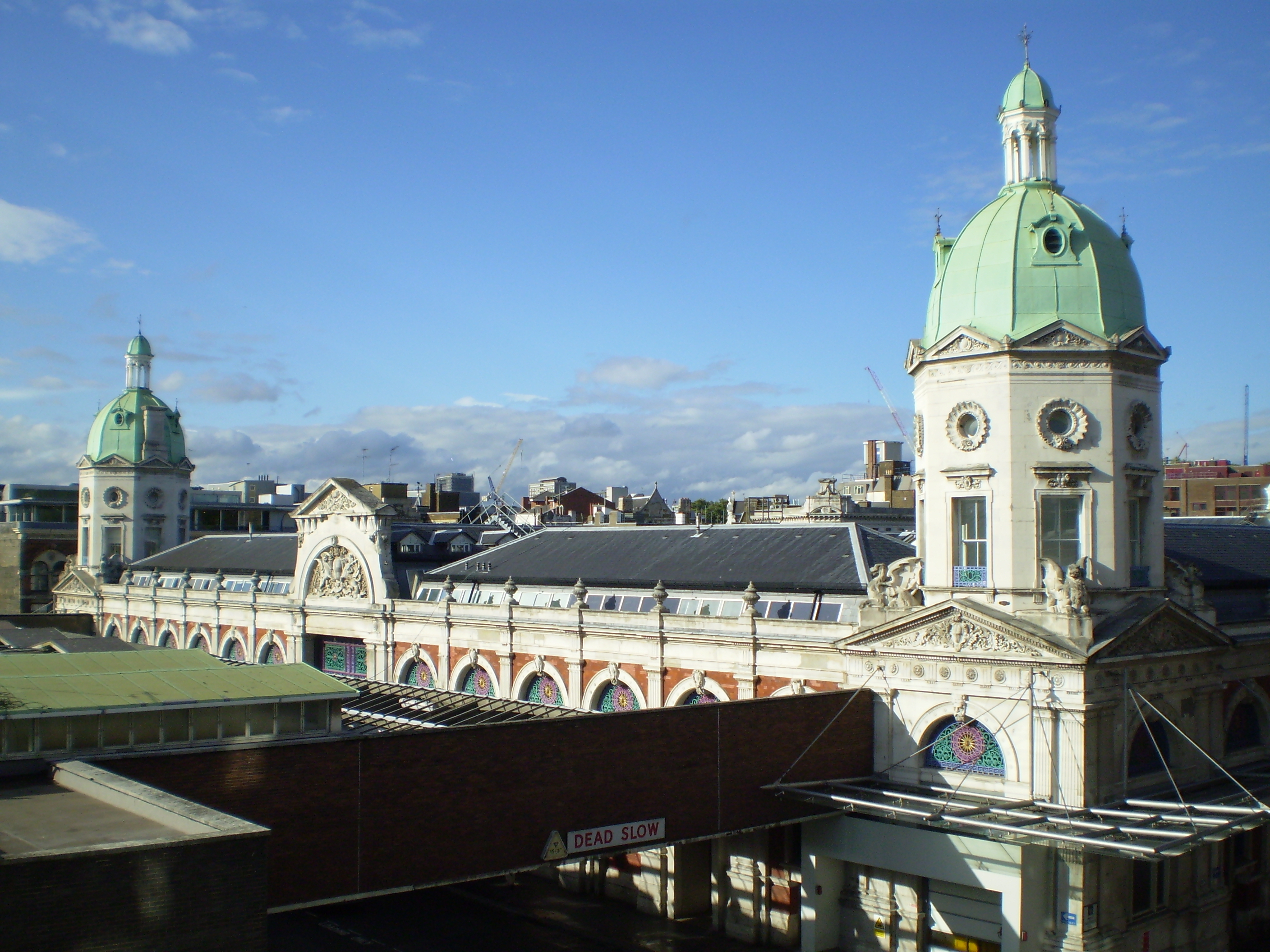 View of Smithfield Meat Market towers from nearby building